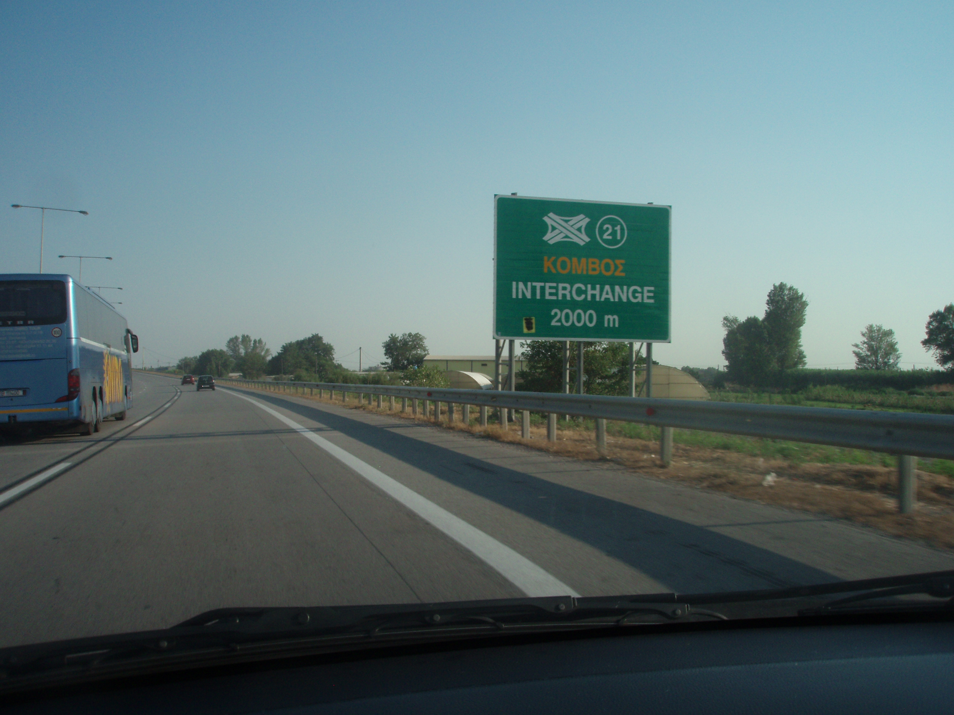 A2 motorway (Egnatia Odos) in Greece. Sign showing next interchange (exit) in 2,000 m distance. Sign located at section Titan (K4, Efkarpia)-Kalochori (K1), signalling Kalochori interchange.